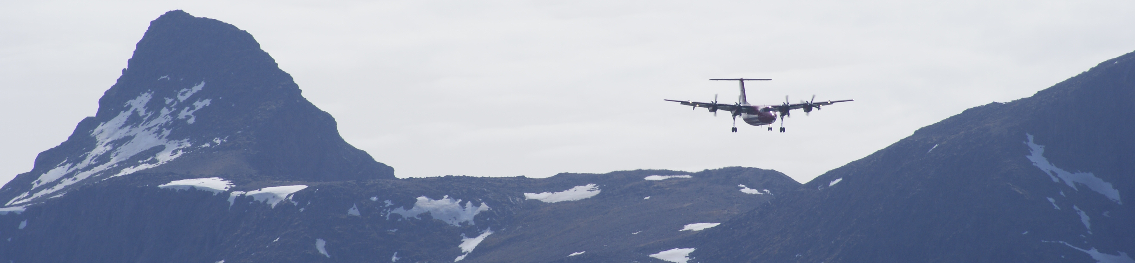 Air Greenland de Havilland Canada Dash-7 flying just north of the summit of Nasaasaaq (784m), descending over Sisimiut (Greenland) towards Sisimiut Airport during its flight from Kangerlussuaq Airport. Cropped.